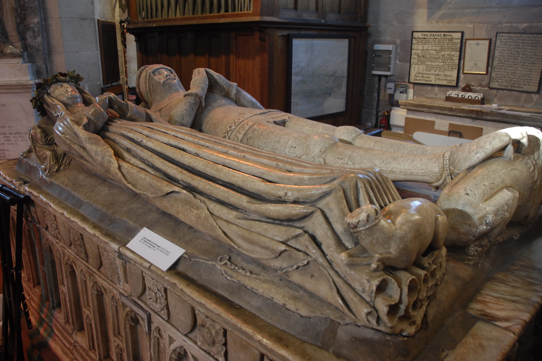 Effigies of Sir Fulke and Lady Elizabeth de Pembrugge in St Bartholomew's parish church, Tong, Shropshire